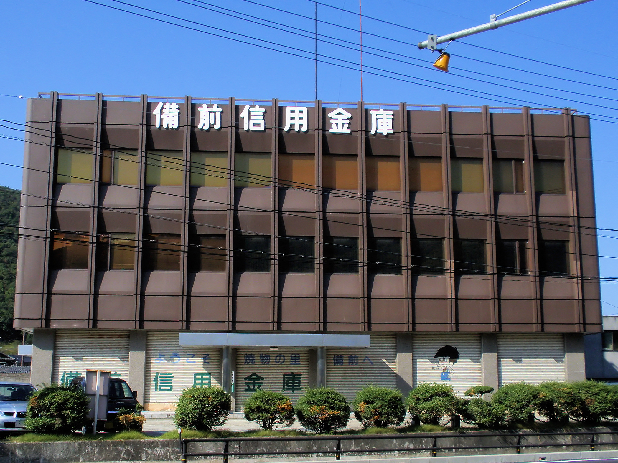 Bizen Shinkin Bank head store in Imbe, Bizen, Okayama prefecture